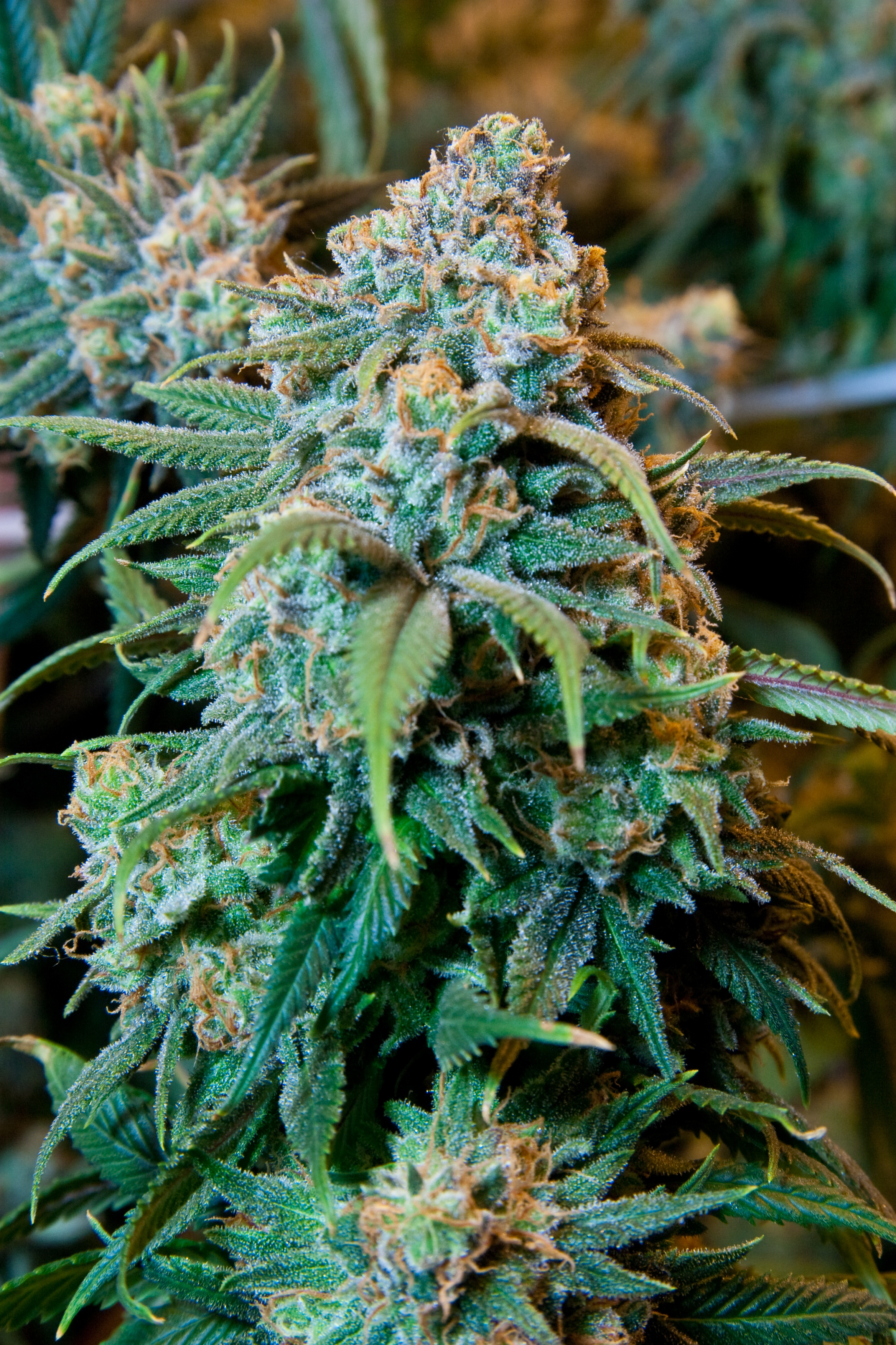 A ripe & healthy cannabis plant.